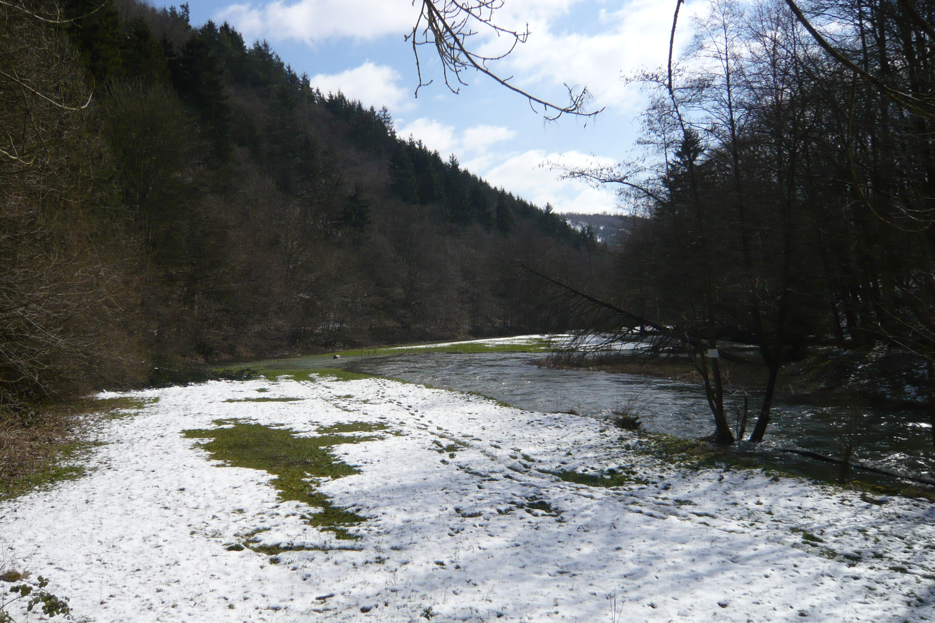 Clerve valley near Clervaux